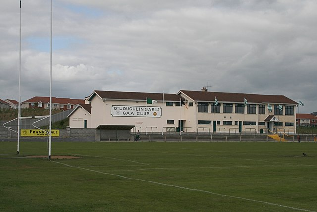 O'Loughlin Gaels GAA Club Sportsground and clubhouse.